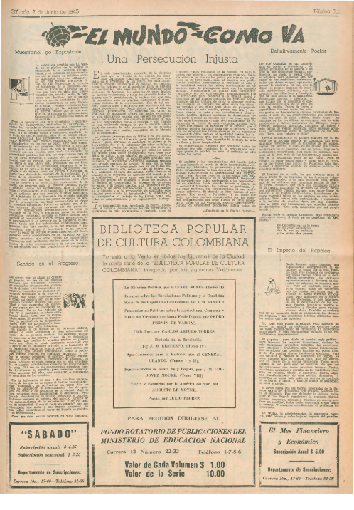 Page of Colombian newspaper "Sabado". Included an advertise of the "Biblioteca popular de cultura colombiana" (Popular Culture Colombian Library book series)